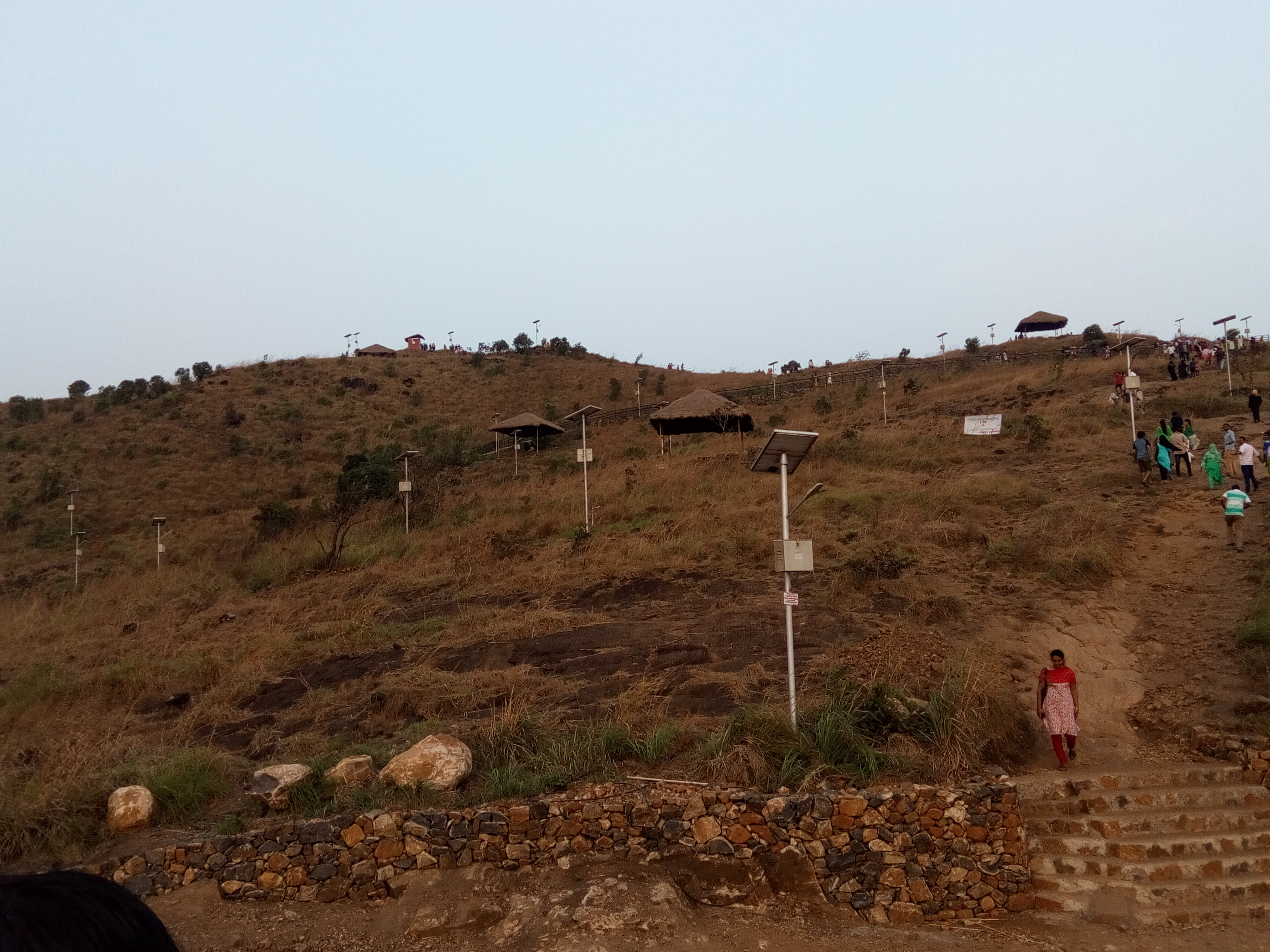 A good picnic spot. 28 km from thaliparambu in koorg route. this is the view from down to palakkayam thattu